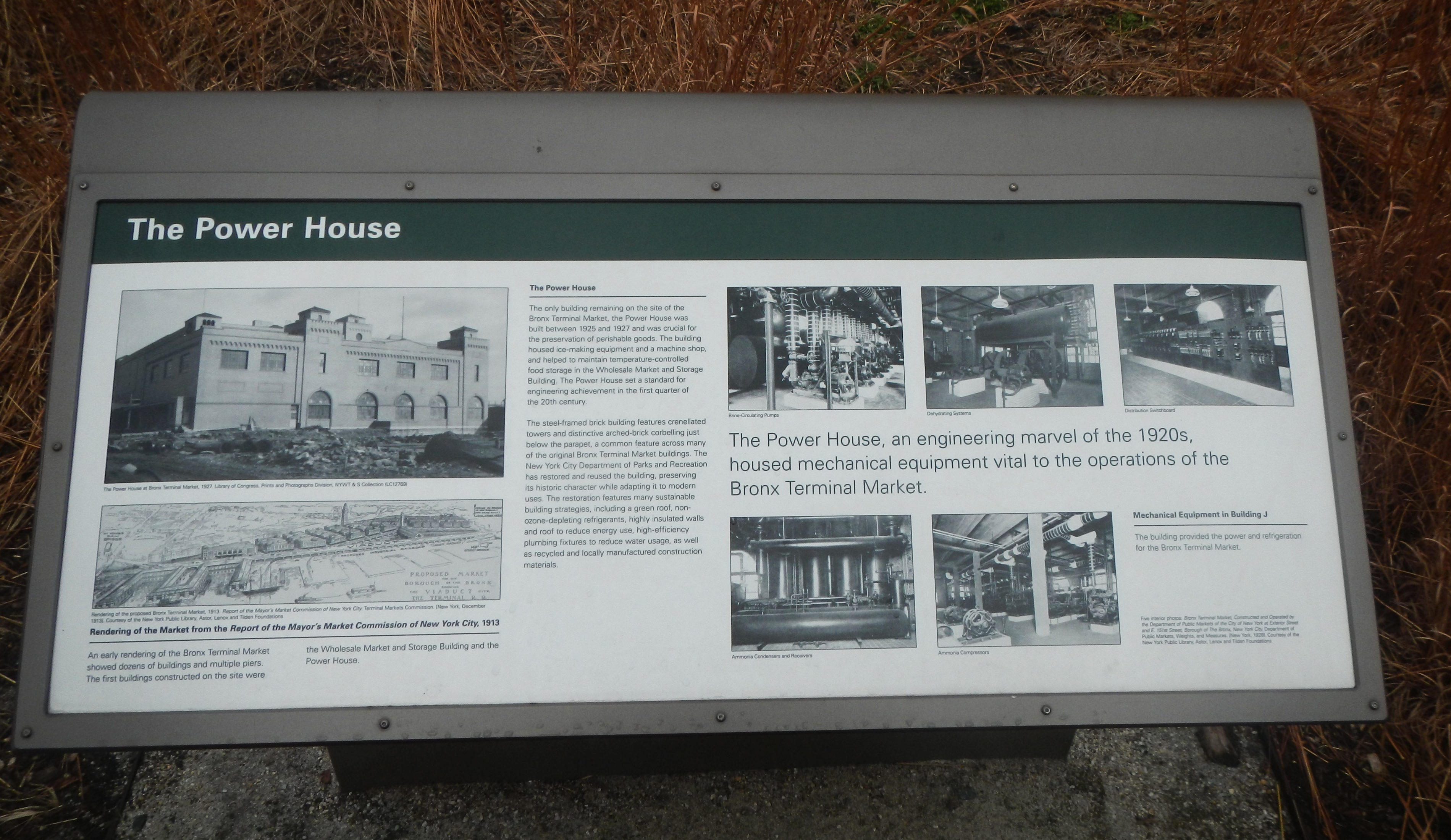 Looking northeast at sign in front of power house in the shade.